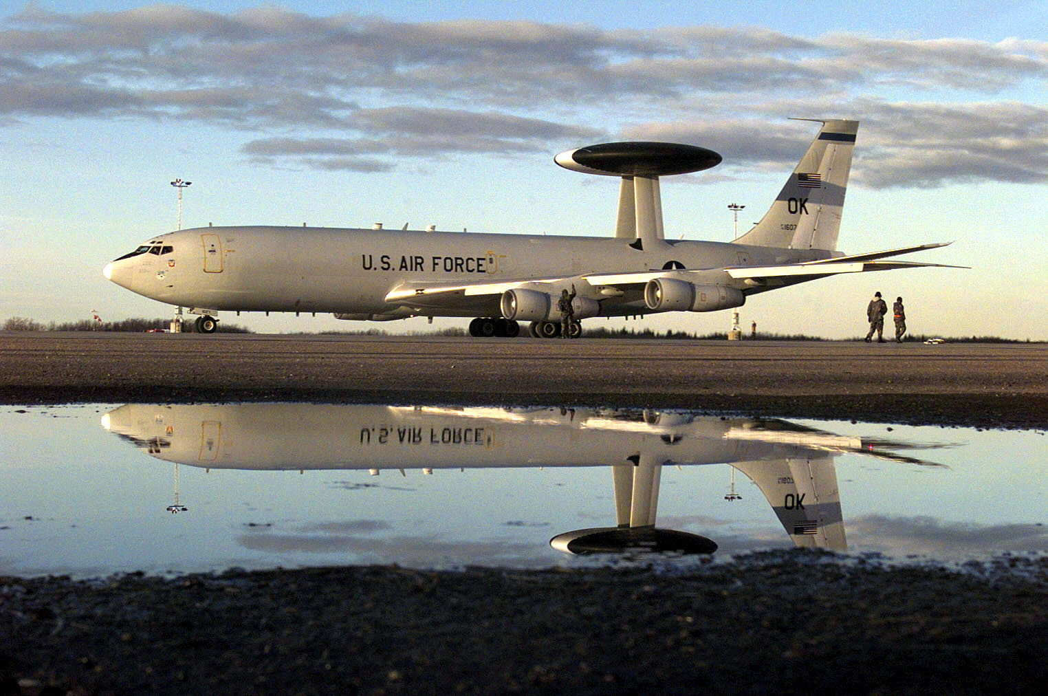 A U.S. Air Force E-3 Sentry airborne warning and control system (AWACS) aircraft is prepared for an Exercise Amalgam Warrior mission on Nov. 3 1997 at 4 Wing Cold Lake, Canada.